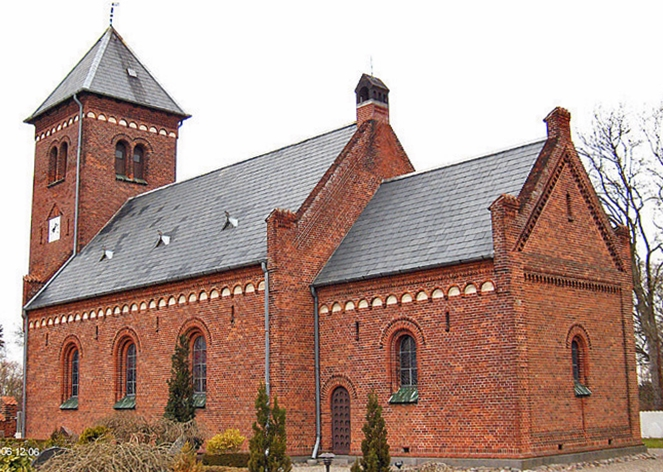 Dannemare Church, Lolland, Denmark. Derivative file with rotation and cropping.